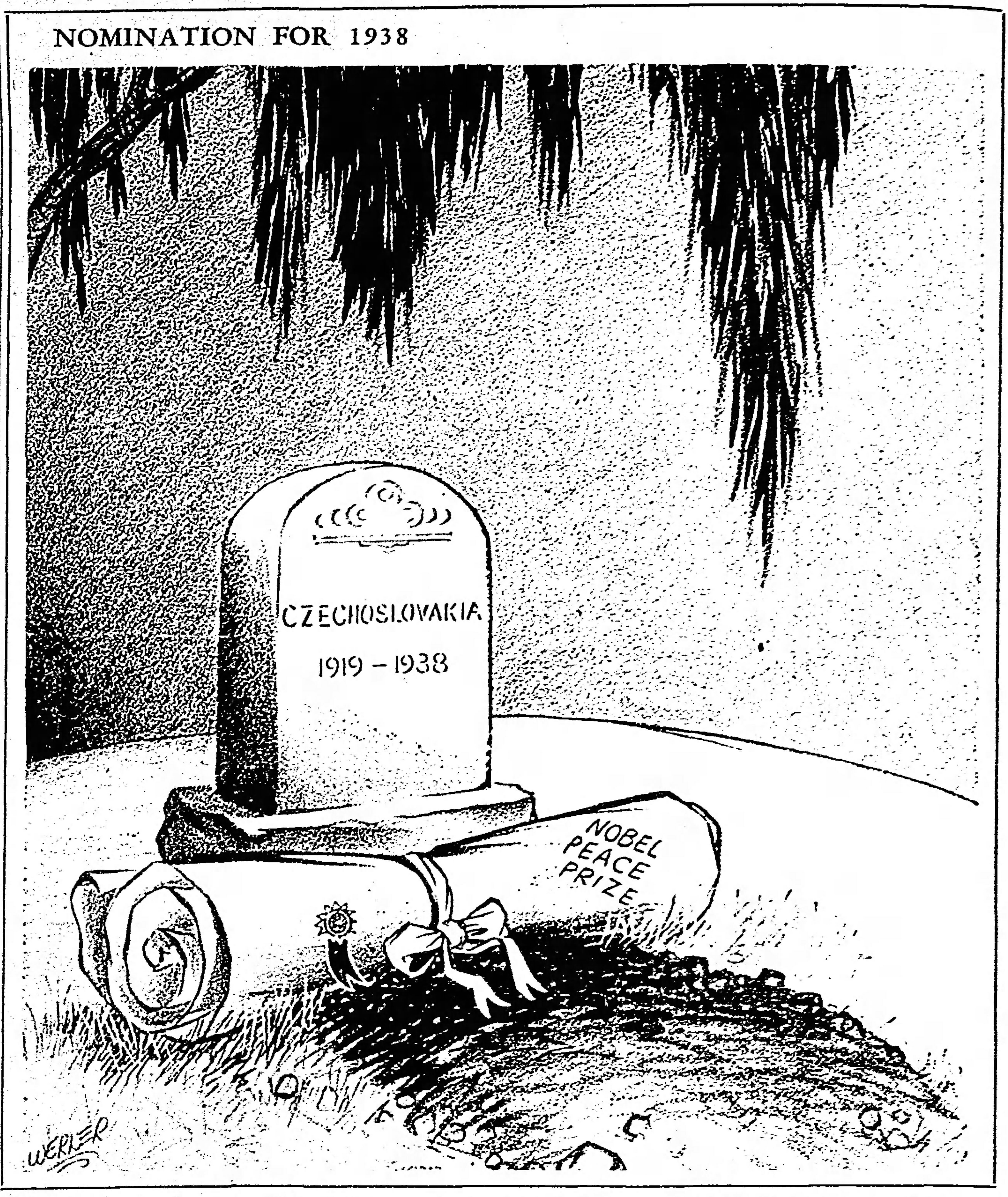 "Nomination for 1938", an editorial cartoon commenting on Germany's annexation of the Sudetenland. Winner of the 1939 Pulitzer Prize for Editorial Cartooning.